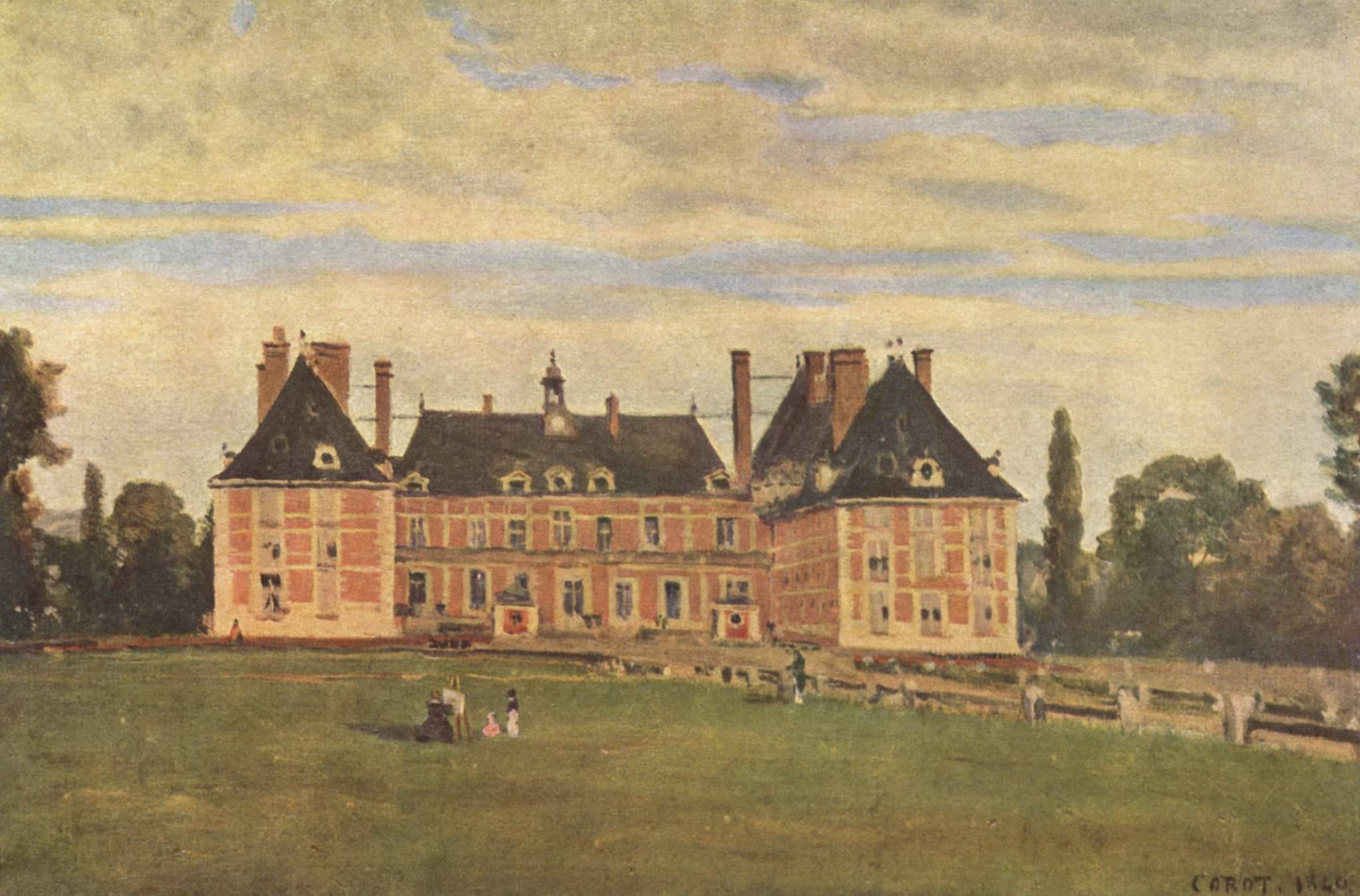 This painting is a matching piece to Rosny. Vue du village au printemps.